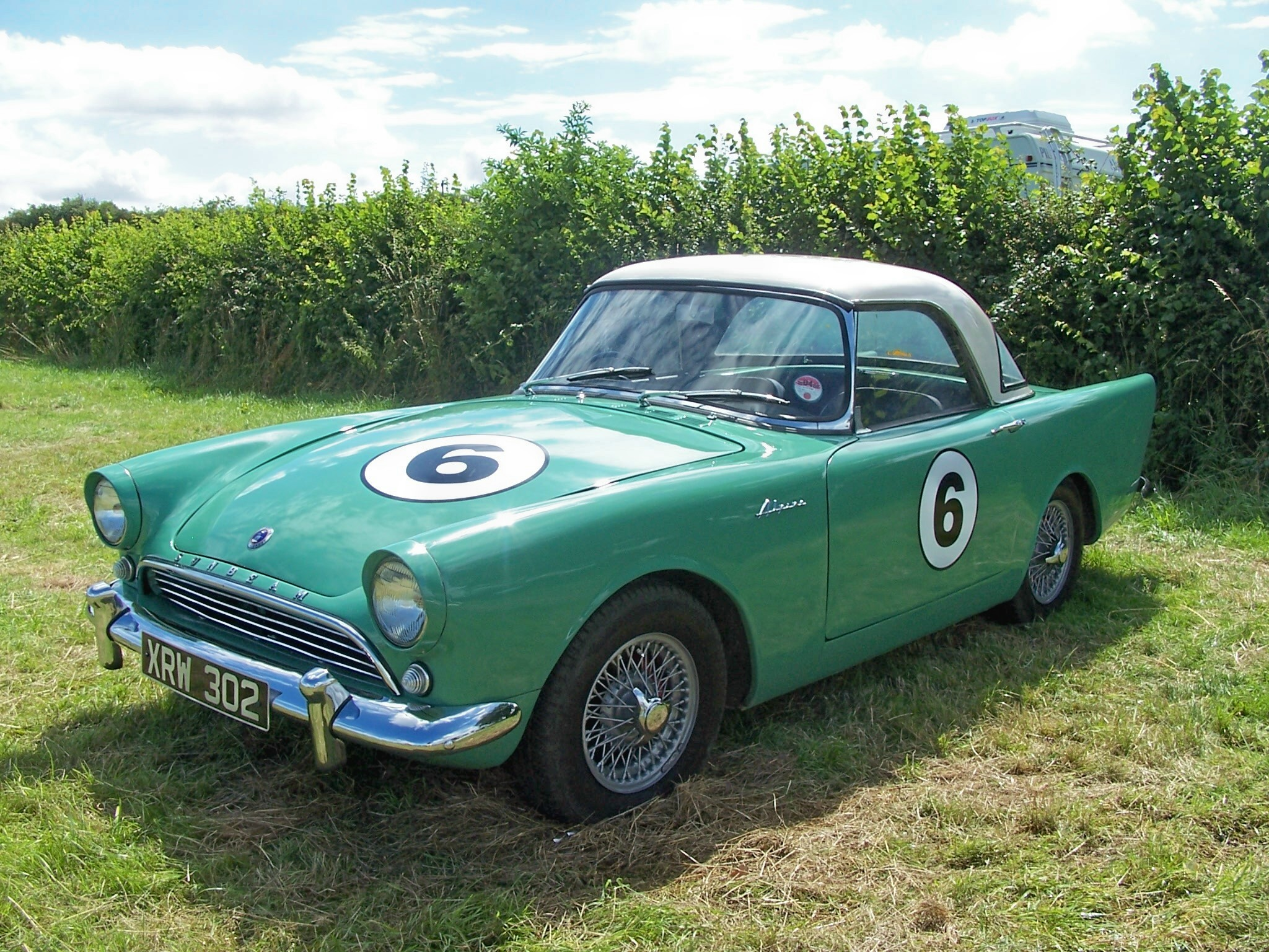 Bernard Unett's first racing car Sunbeam Alpine XRW 302 Author; John Willshire Source John Willshire